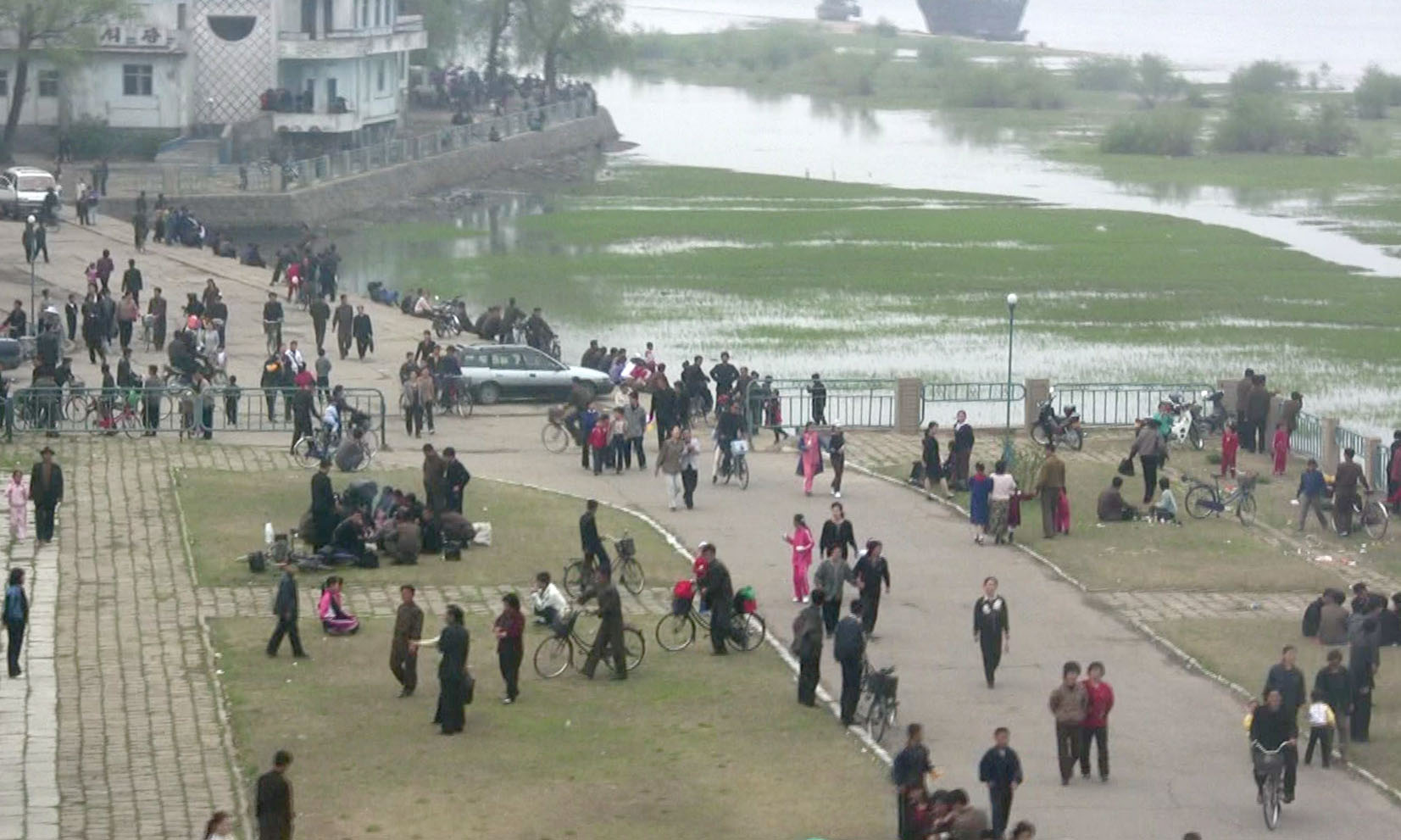 Amnok River (Yalu River) in Sinuiju, DPRK